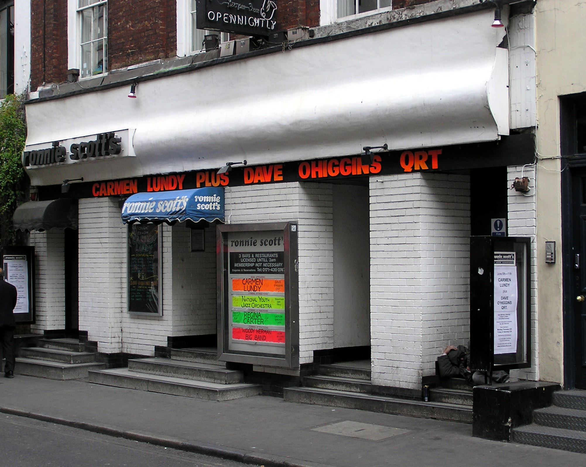 Ronnie Scott’s Club, 47 Frith Street, Soho, London, England. Photographed by Adrian Pingstone in June 2005 and released to the public domain.